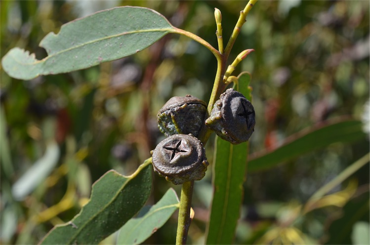 Fruit of Eucalyptus globulus subsp. globulus near Sandy Bay on the outskirts of Hobart, Tasmania